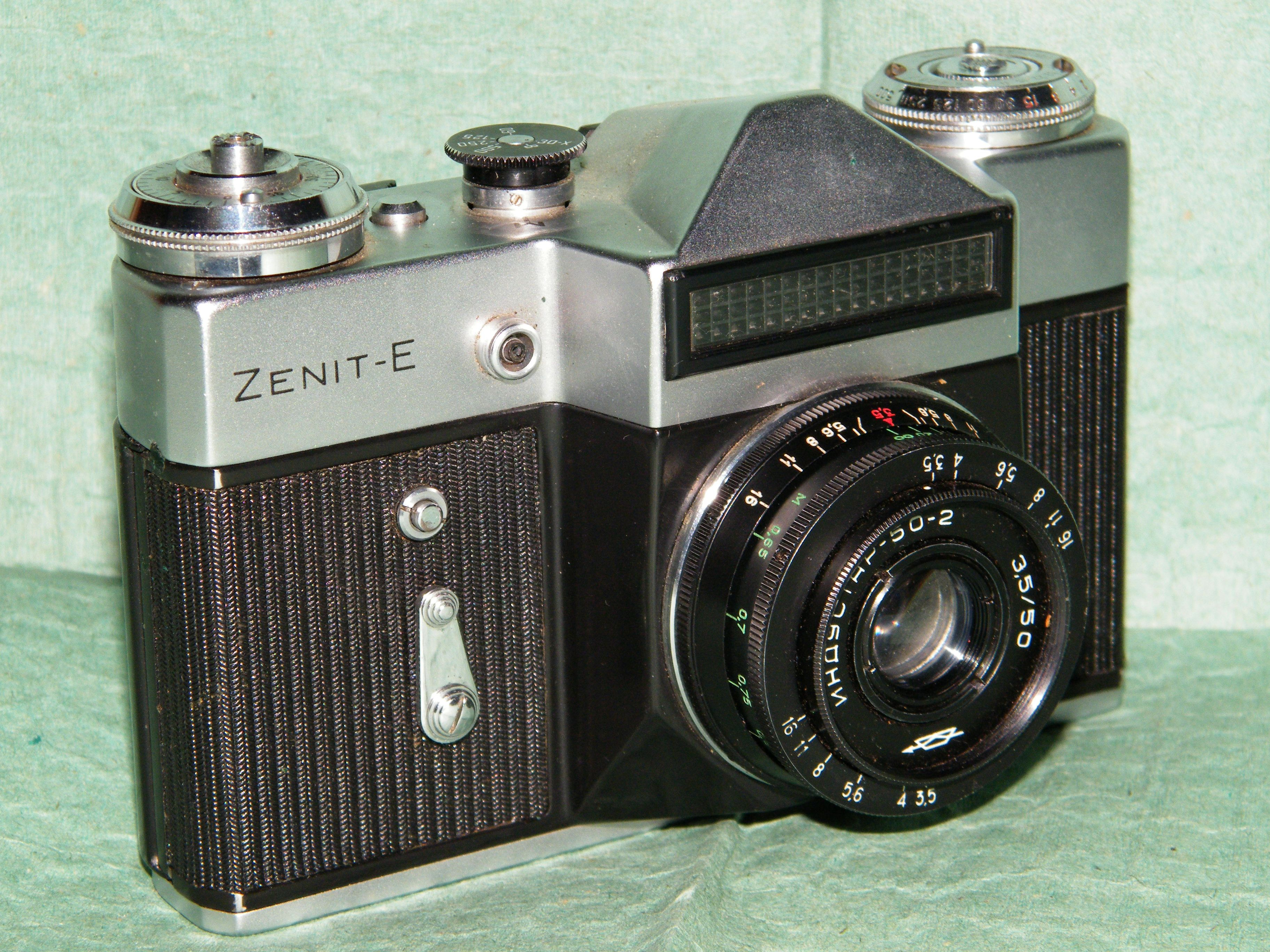 Zenit E